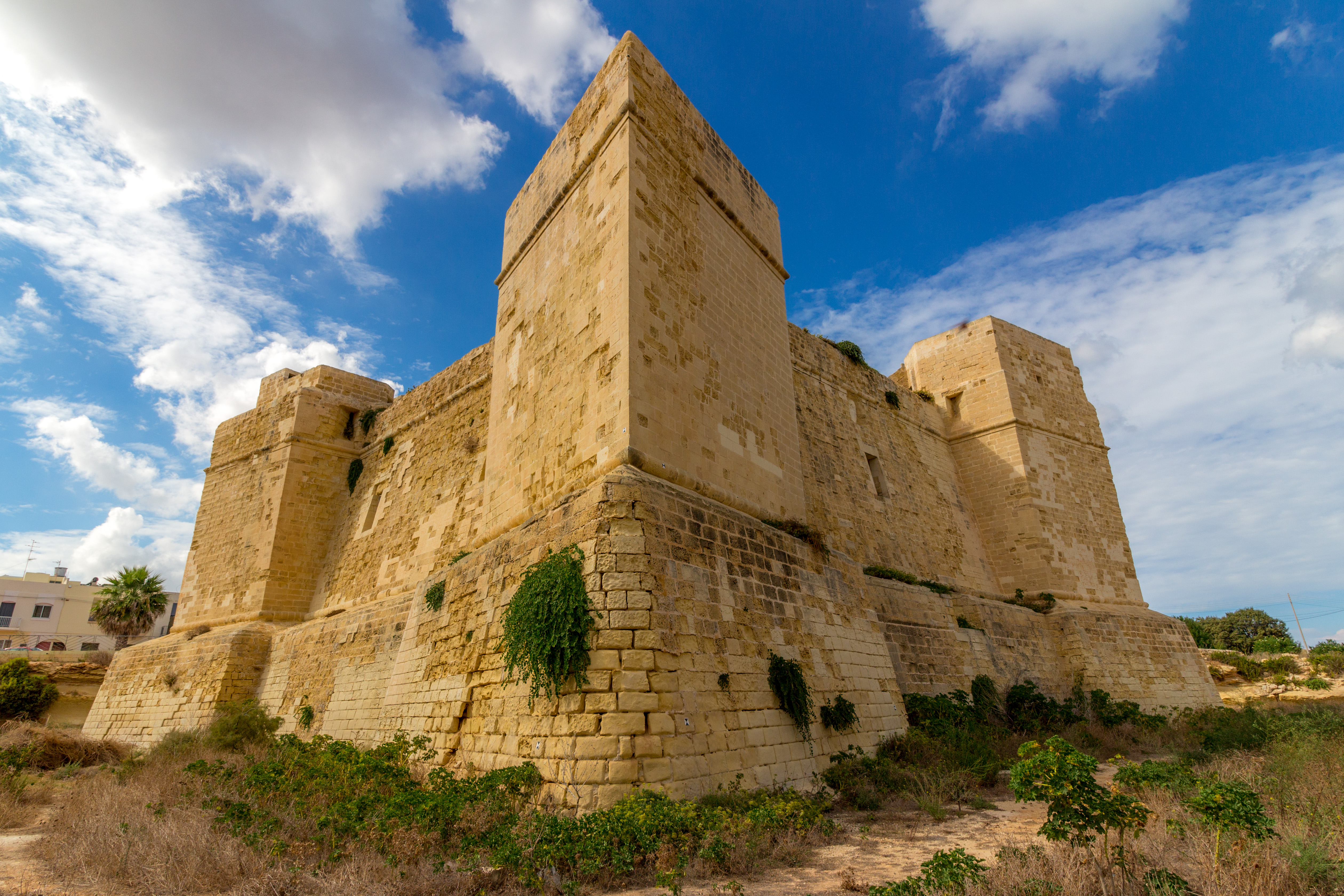 St Thomas Tower and Battery This media is about Maltese cultural property with inventory number 01377.